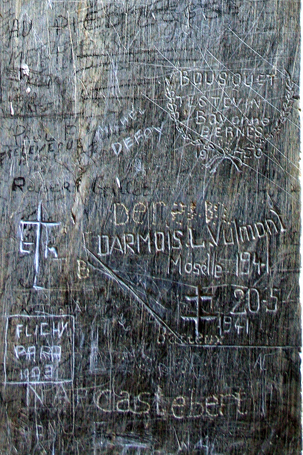 Graffitis of several periods, on a chapel in Betharram (France)